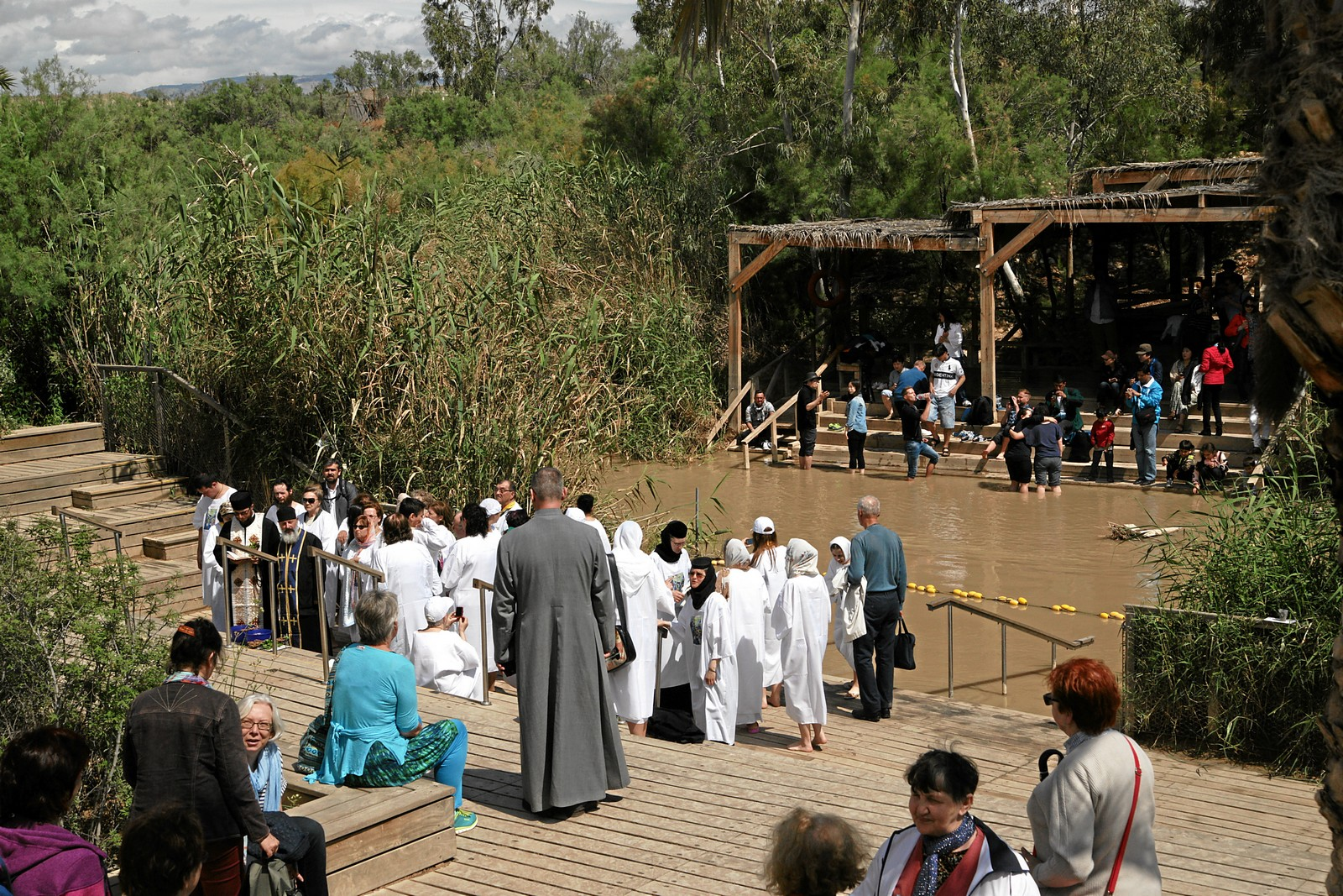 Baptismal site: Qaser el Yahud